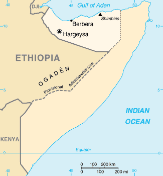 Map of Somaliland